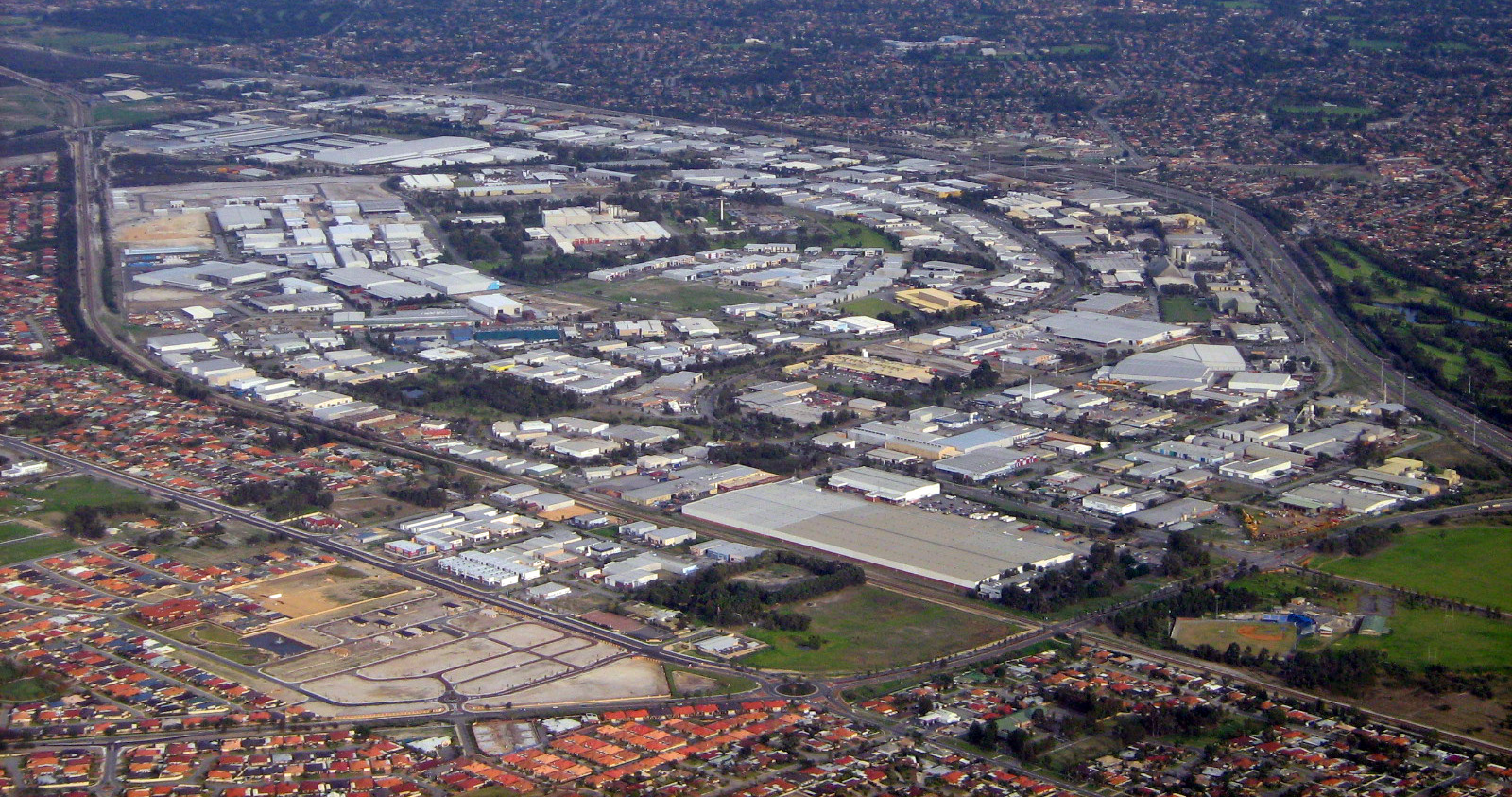 View from the air of Canning Vale industrial area.